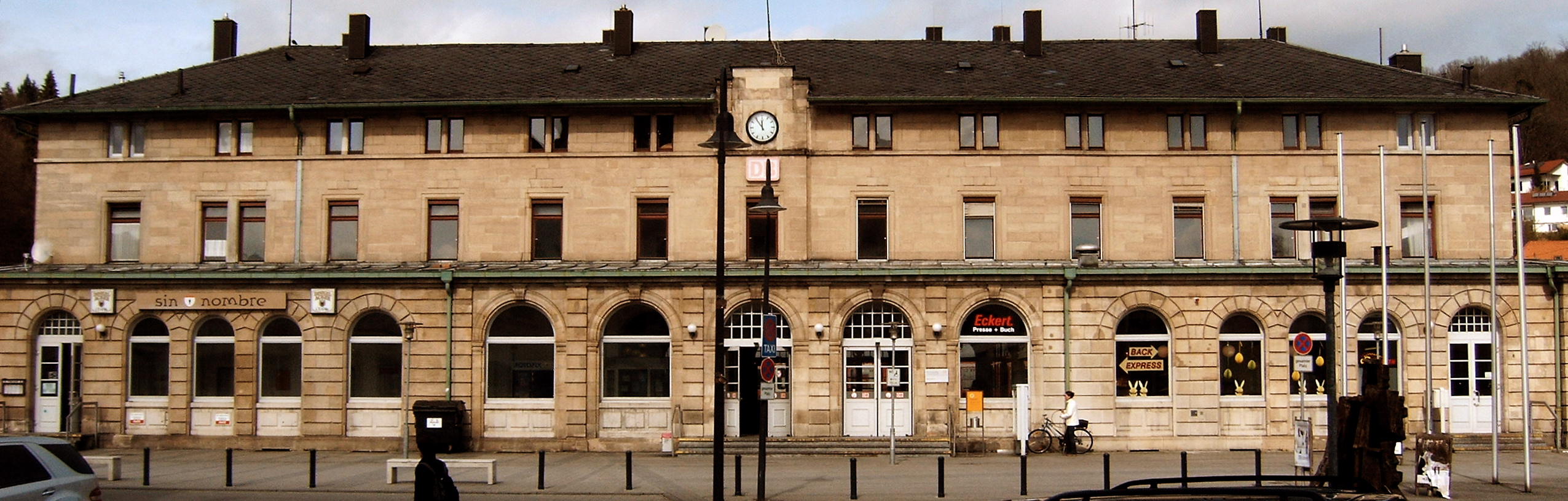 Schwäbisch Gmünd train station, Remsbahn line